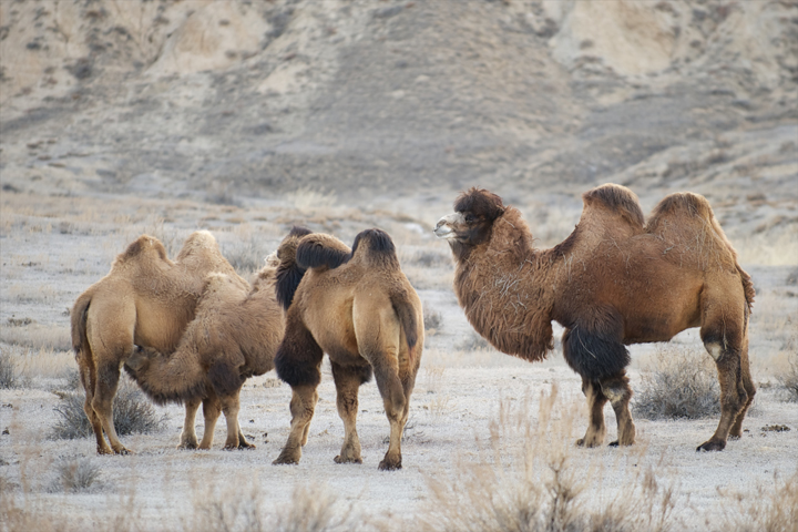 Camels grazing in mountainous region in Naryn Rayon, Kyrgyzstan, November 30th.